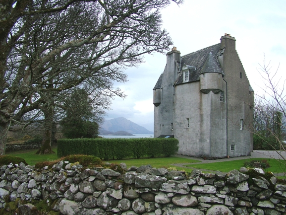 Barcaldine Castle